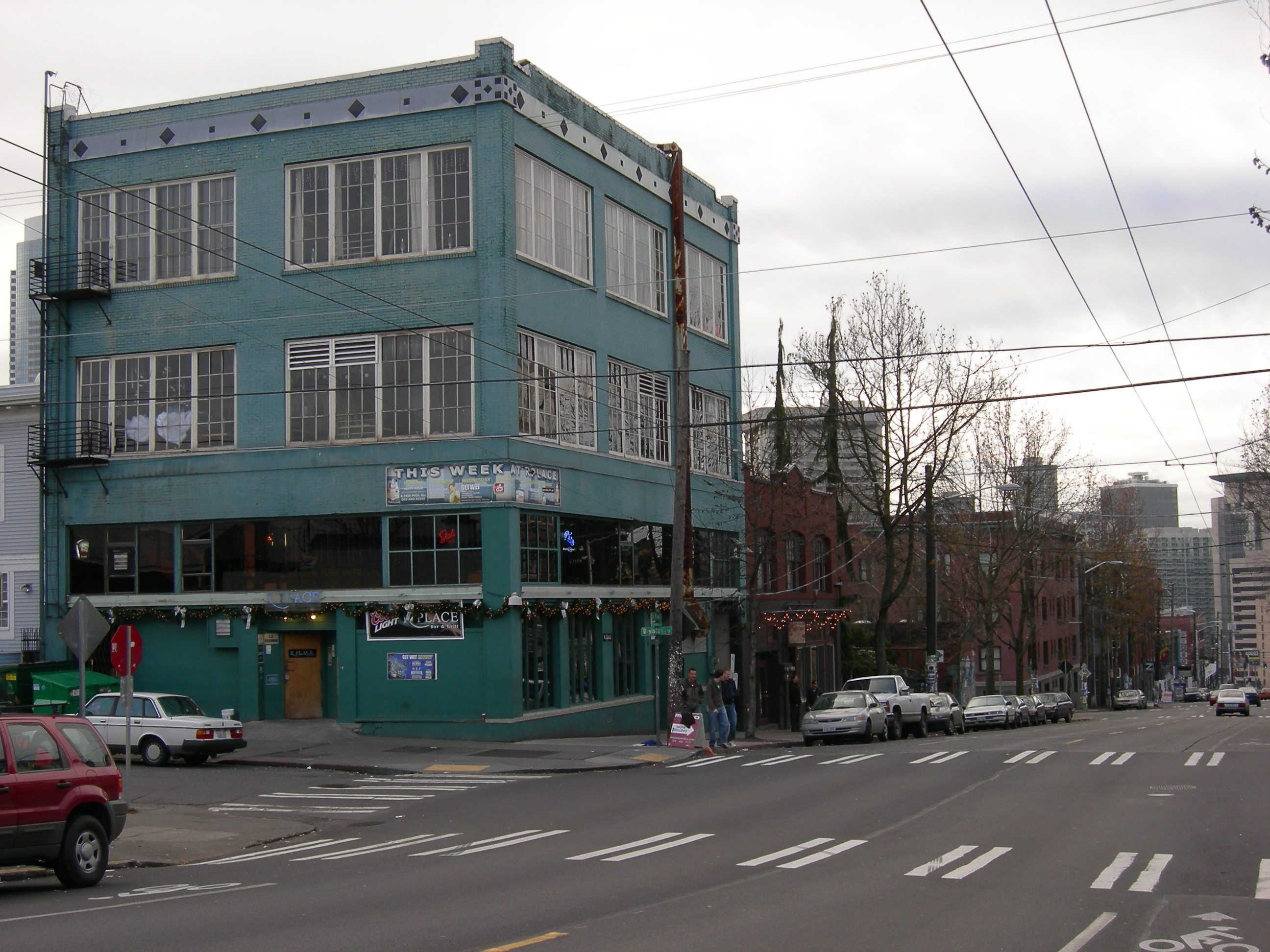 R Place, 3-story gay bar, south side of E. Pine Street, Pike-Pine Corridor, Capitol Hill, Seattle, Washington.